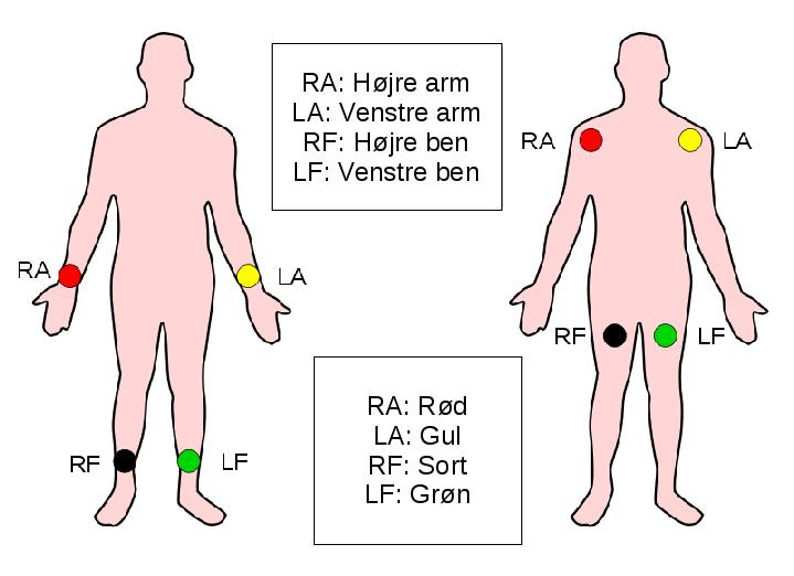 Placement of distal electrodes for ECG